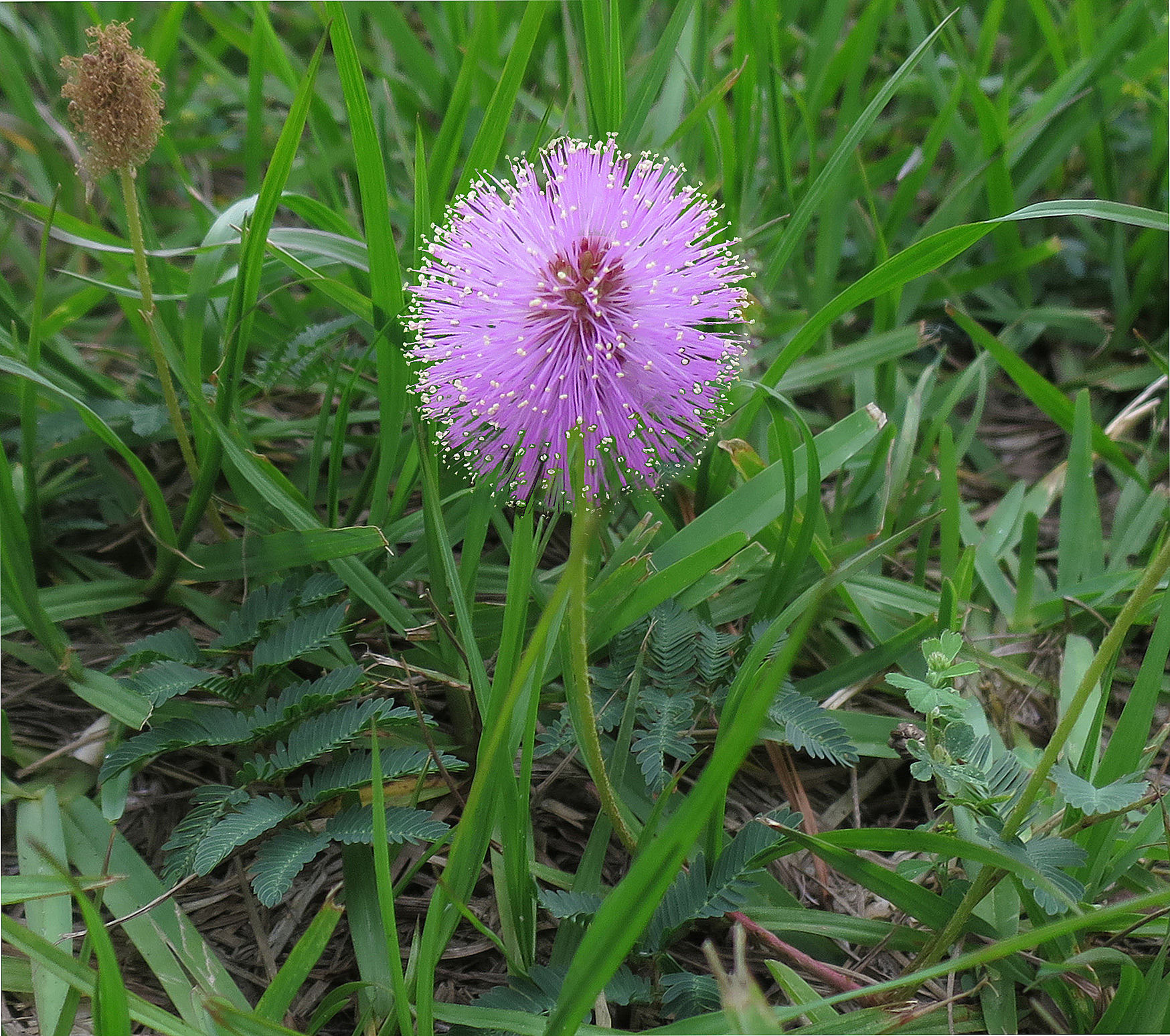 'Powderpuff' Mimosa strigillosa